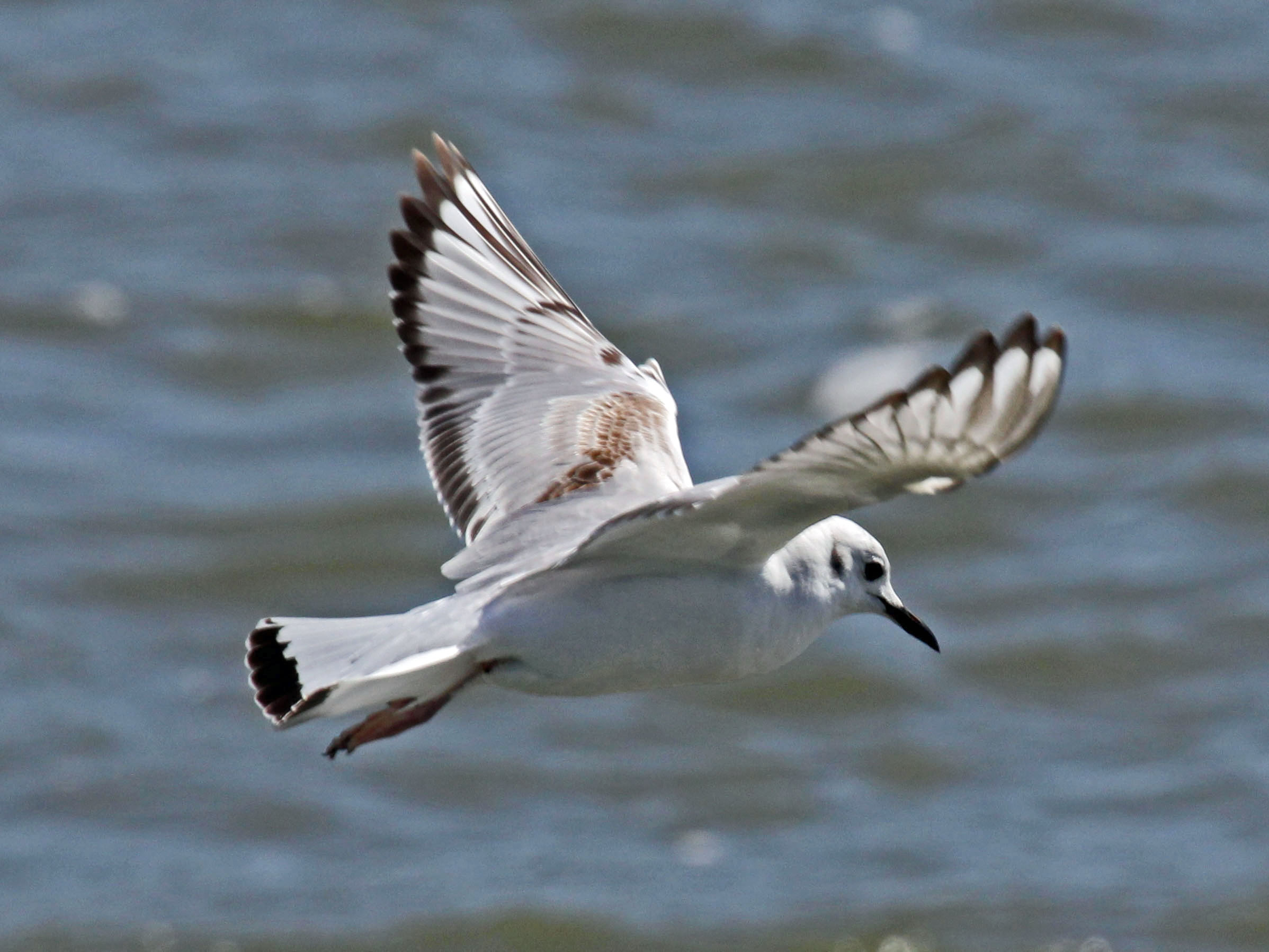 Juvenile Bonaparte's Gull (Chroicocephalus philadelphia) - Bald Head Island, North Carolina